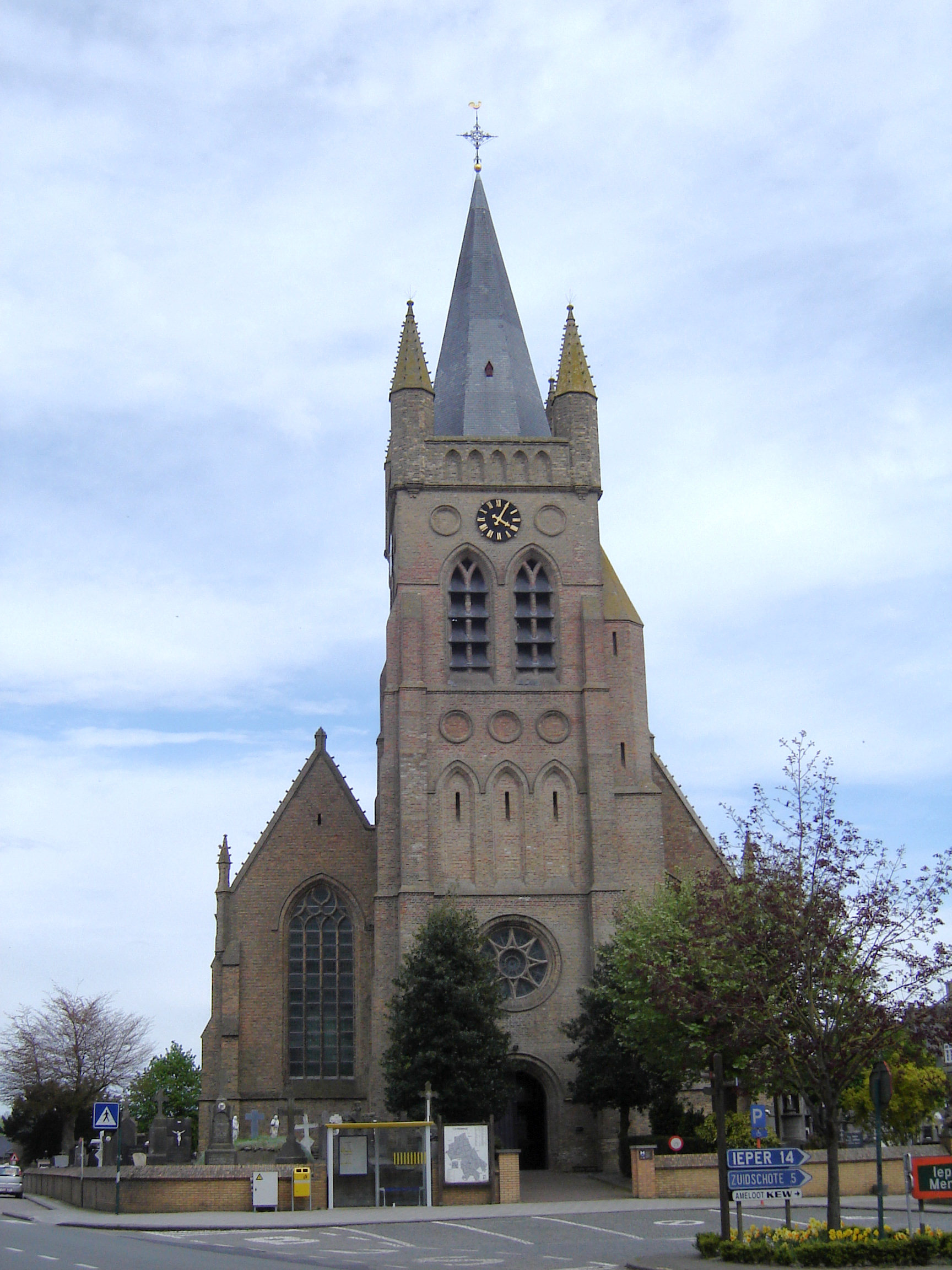 Church of Saint Rictrude in Reninge. Reninge, Lo-Reninge, West Flanders, Belgium